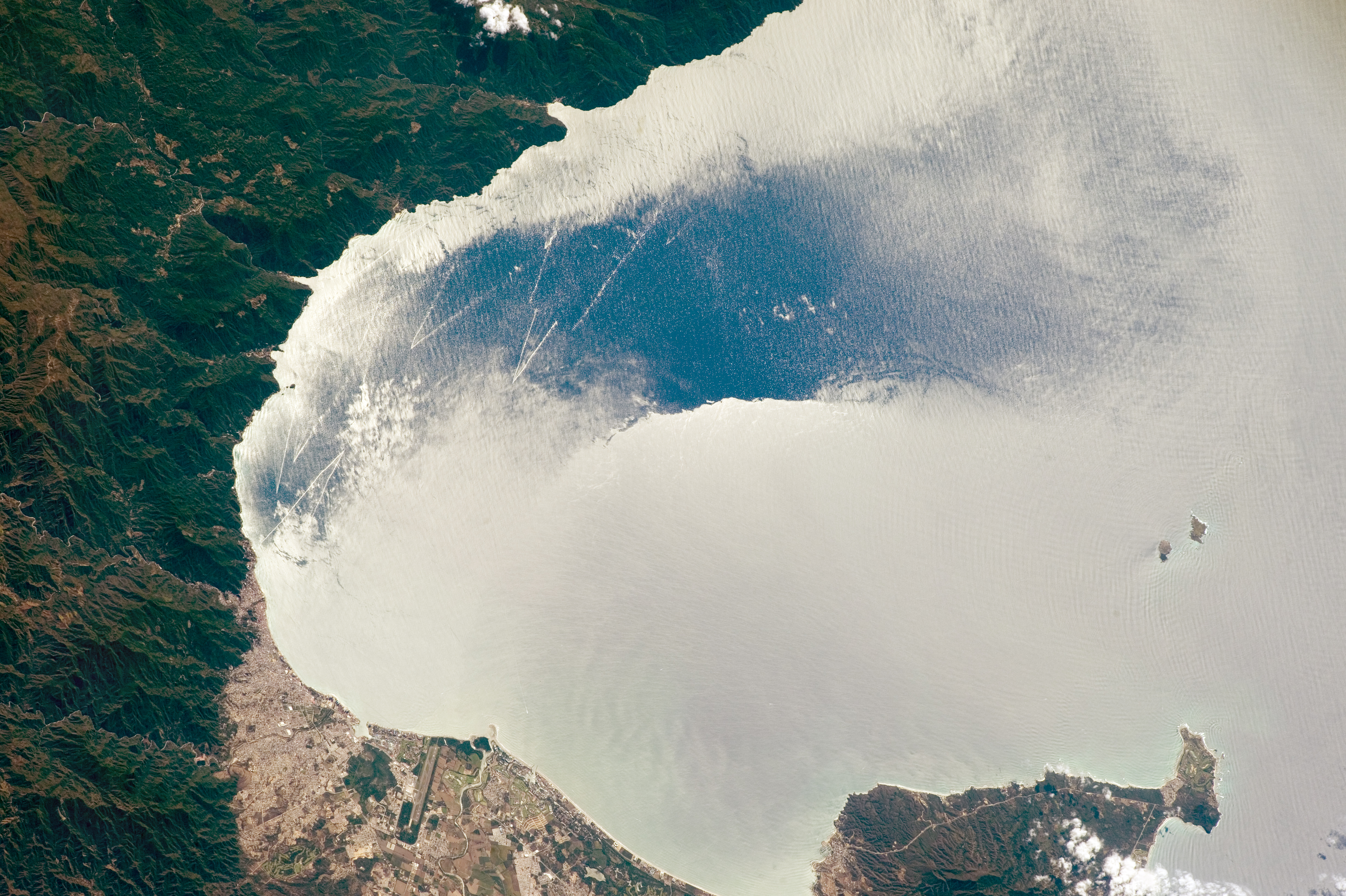 "#Boating off the Baja coast. @Space_Station #Explore #Mexico" -- NASA astronaut Tim Kopra